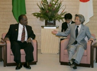 Allan Kemakeza, Prime Minister, talked with Jun'ichirō Koizumi, Prime Minister, at the Prime Minister's Official Residence in Chiyoda Ward, Tōkyō Metropolis on July 11, 2005.